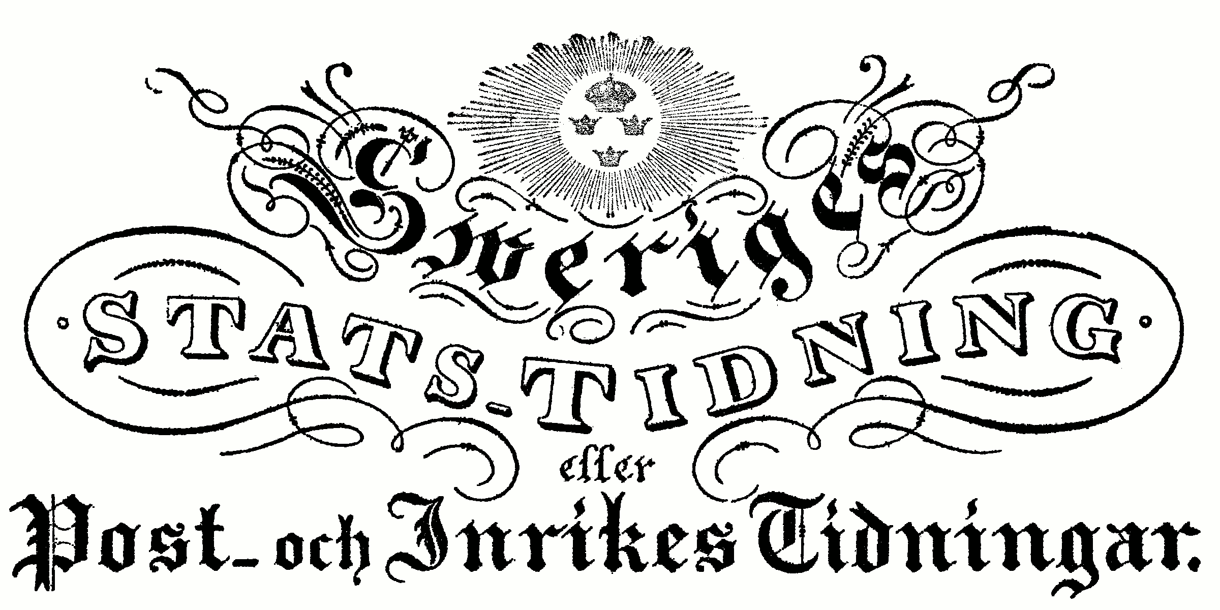 Logotype of Post- och Inrikes Tidningar, as it appeared in 1835